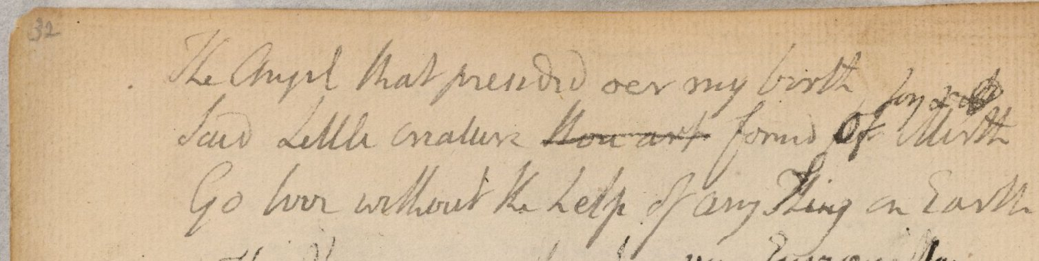 Blake manuscript - Notebook 1808 - 26 The Angel that presided oer my birth